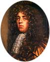 Depicted person: Christopher Vane, 1st Baron Barnard